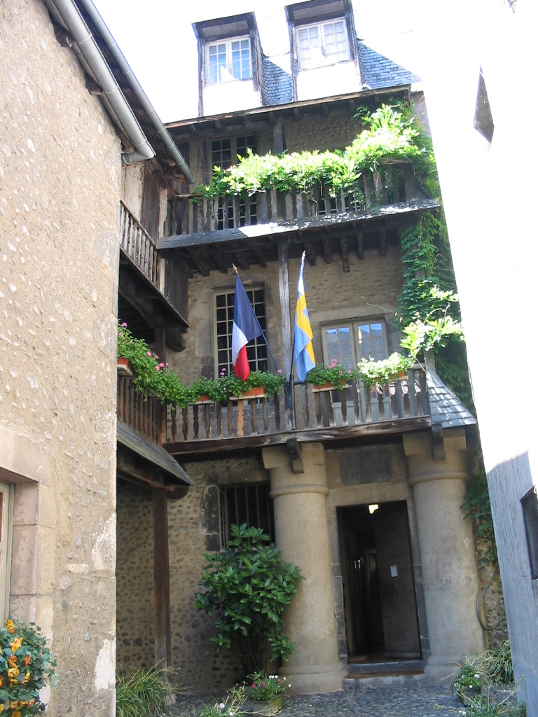 House of Bernadotte (General of Napoleon, King of Sweden) in Pau (South-Western France)